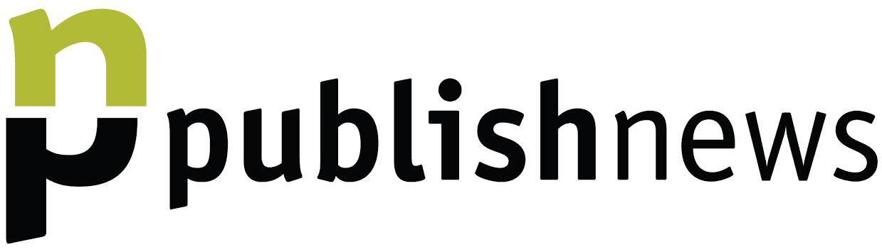 PublishNews official logo.